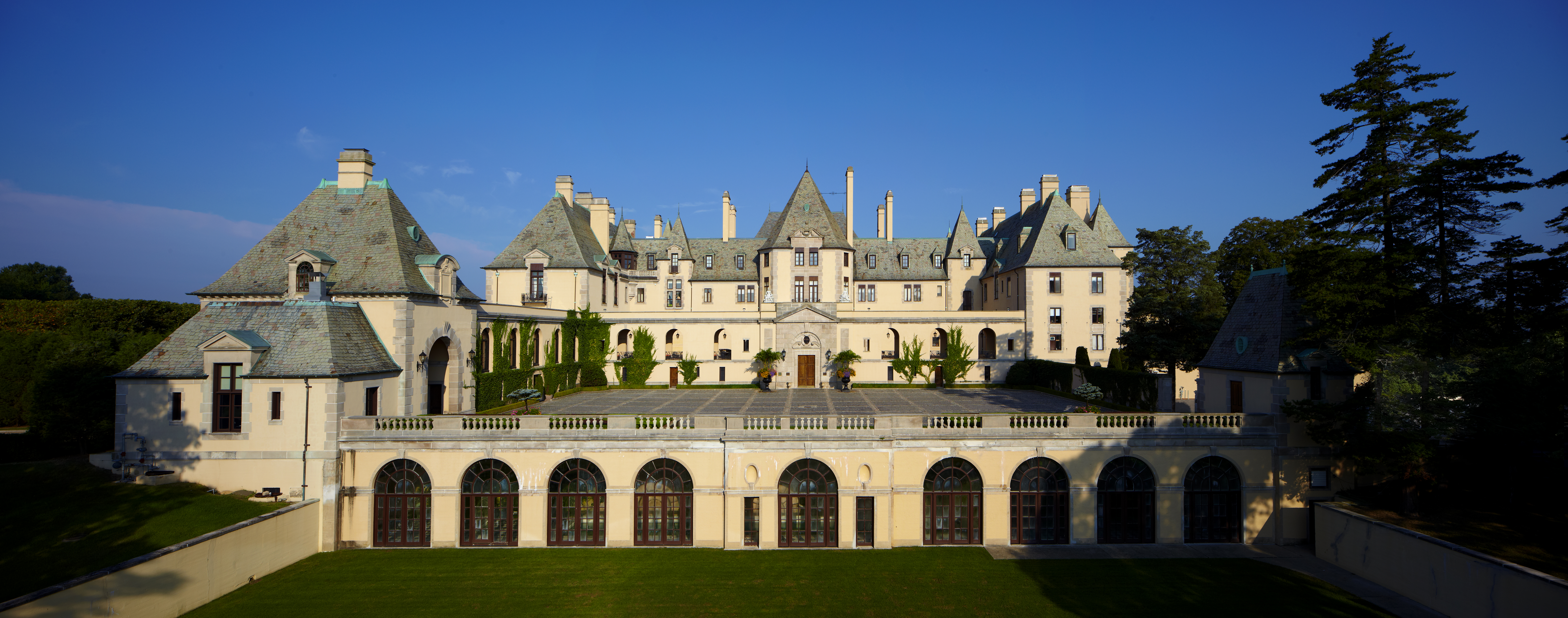 Photograph by Phillip Ennis Photography